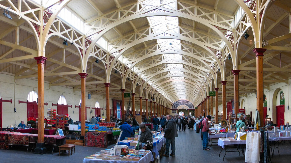 Interior of the Pannier Market in Barnstaple, North Devon, England.